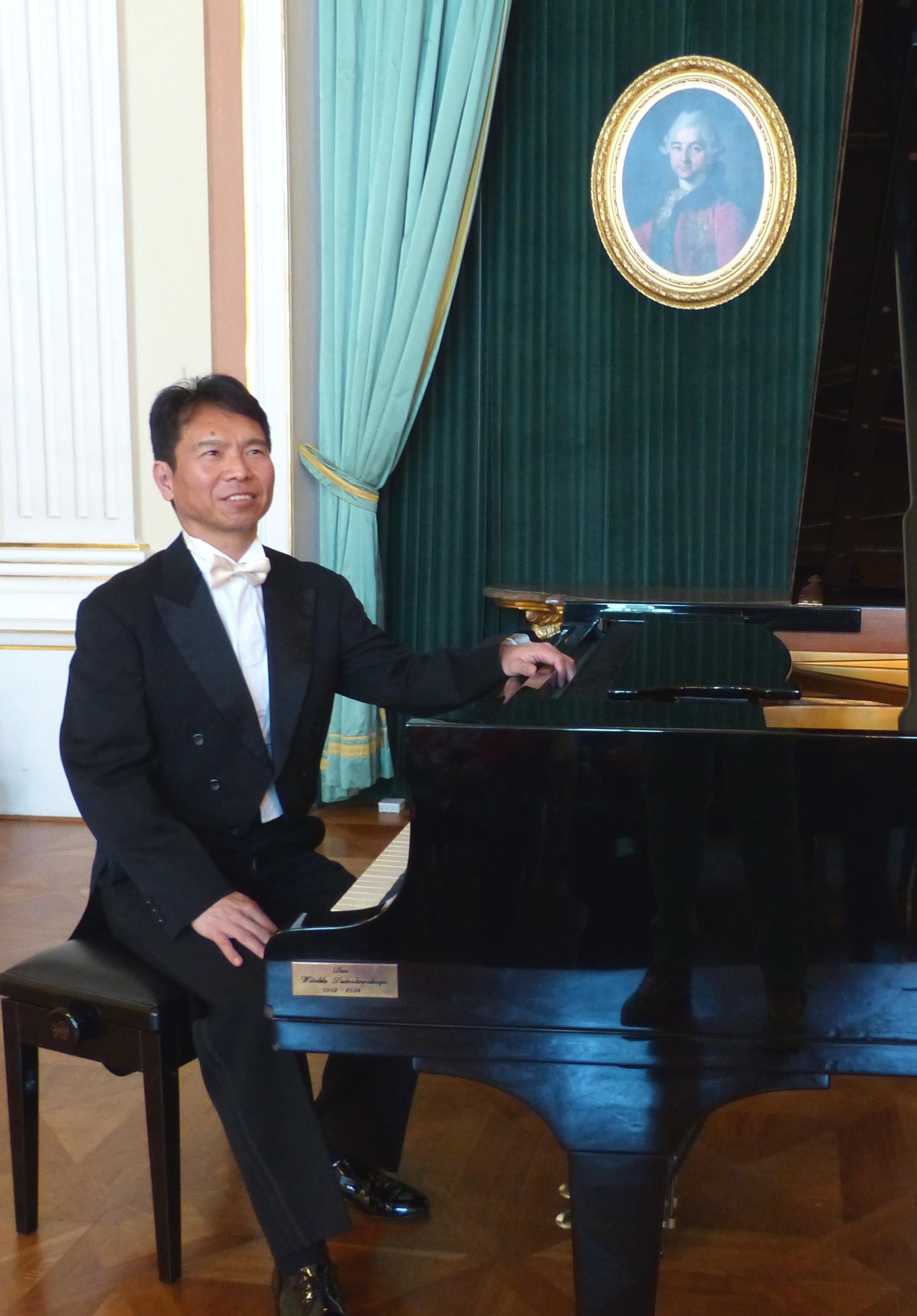 Pianist Moto Harada im Königsschloss in Warschau in 2013 / Pianist Moto Harada, Royal Castle in Warsaw, 2013